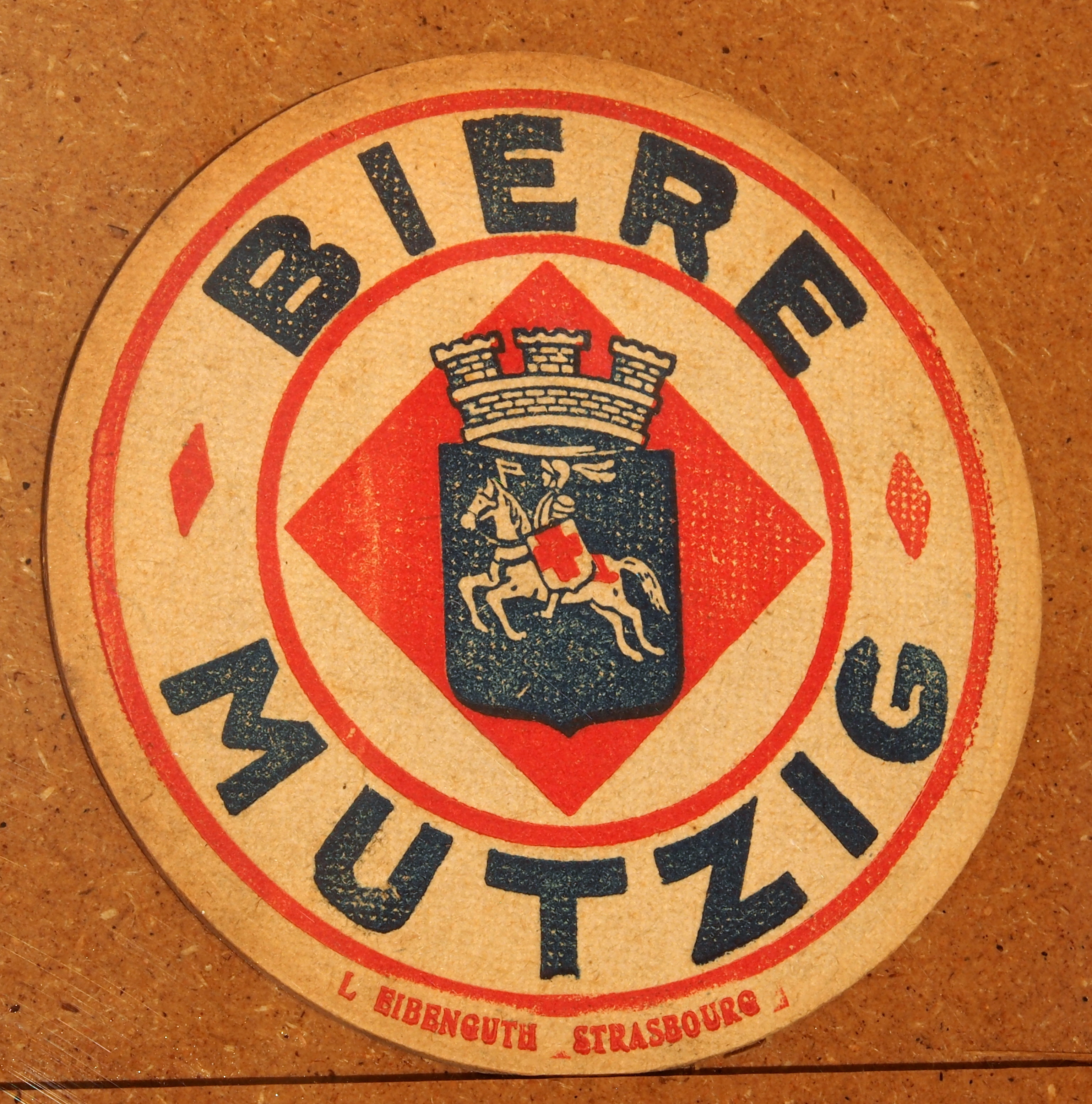 Bière Mutzig. (Photographed through glass.)